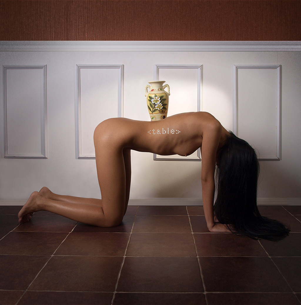 A woman is used as a decorative table.